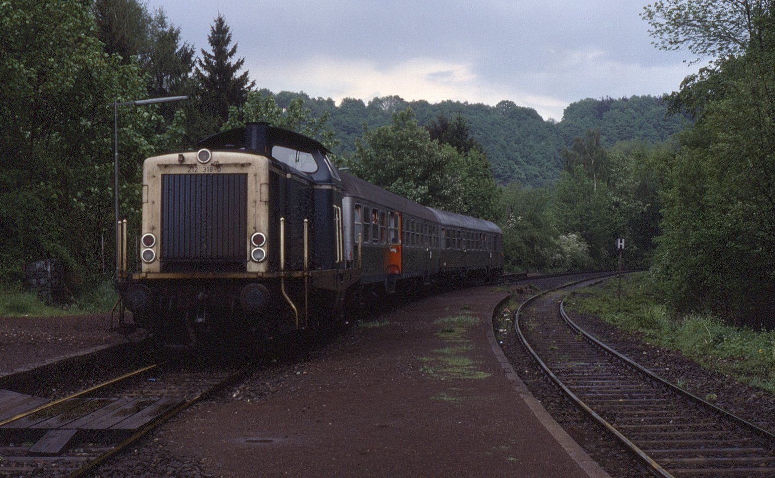 Classic German branch line travel before multiple unit operation took over! En-route to Heimbach on 7 May 1990, 212.318 pauses at Untermaubach to cross over with a train in the opposite direction. Train was no. 8324, 16:39 Düren to Heimbach (Eifel). The branch along with another one from Düren through to Jülich is known as the Rurtalbahn. Three years after this visit, Deutsche Bahn loco plus push-pull operation ceased and new low floor Regiosprinters took over with the newly formed privater operator, Rurhtalbahn GmbH.